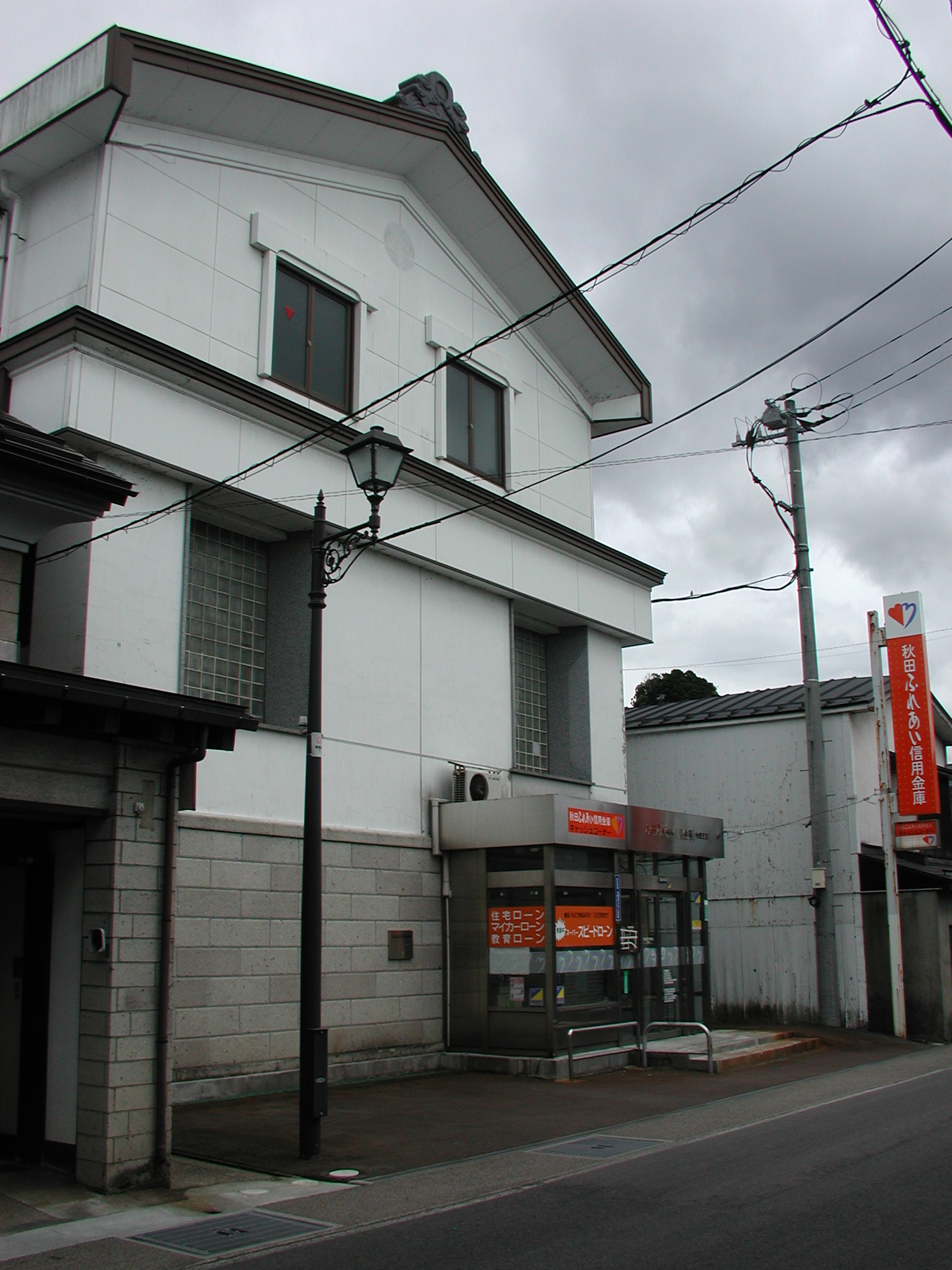 The Akita-Fureai Shinkin Bank Kakunodate Branch